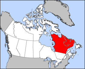 Illustration of the approximate geographic area of the Labrador Peninsula. Modification of "